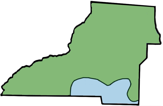 Map depicts Leon County, Florida for the Penholoway terrace and shoreline which was deposited during a warming period (and after the Hazelhurst terrace and shoreline warming period) within the Early Pleistocene epoch. This map was crated by overlaying a USGS terrace and shoreline map over an accurate Leon County matching template.